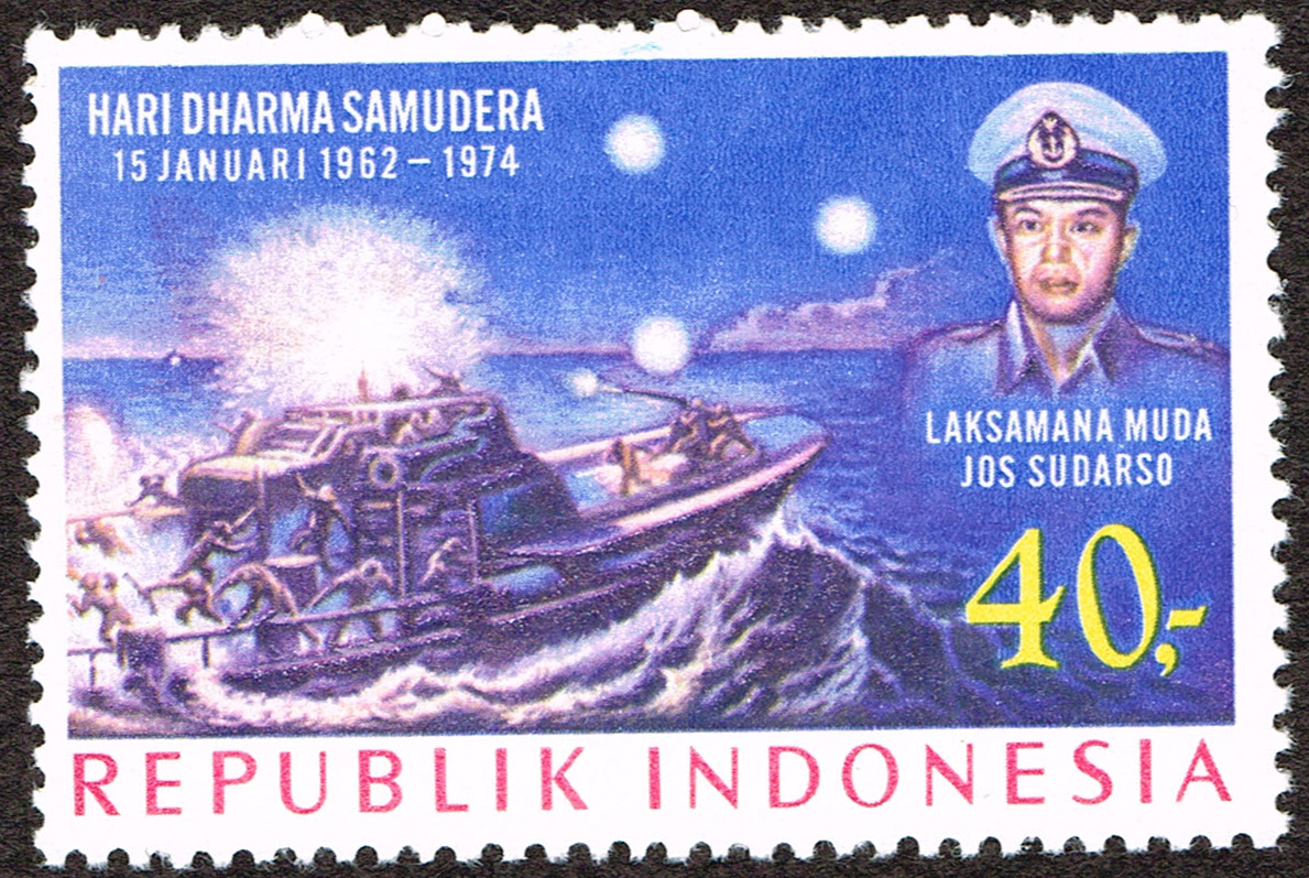 Scan of an Indonesian postage stamp commemorating Admiral Yos Sudarso